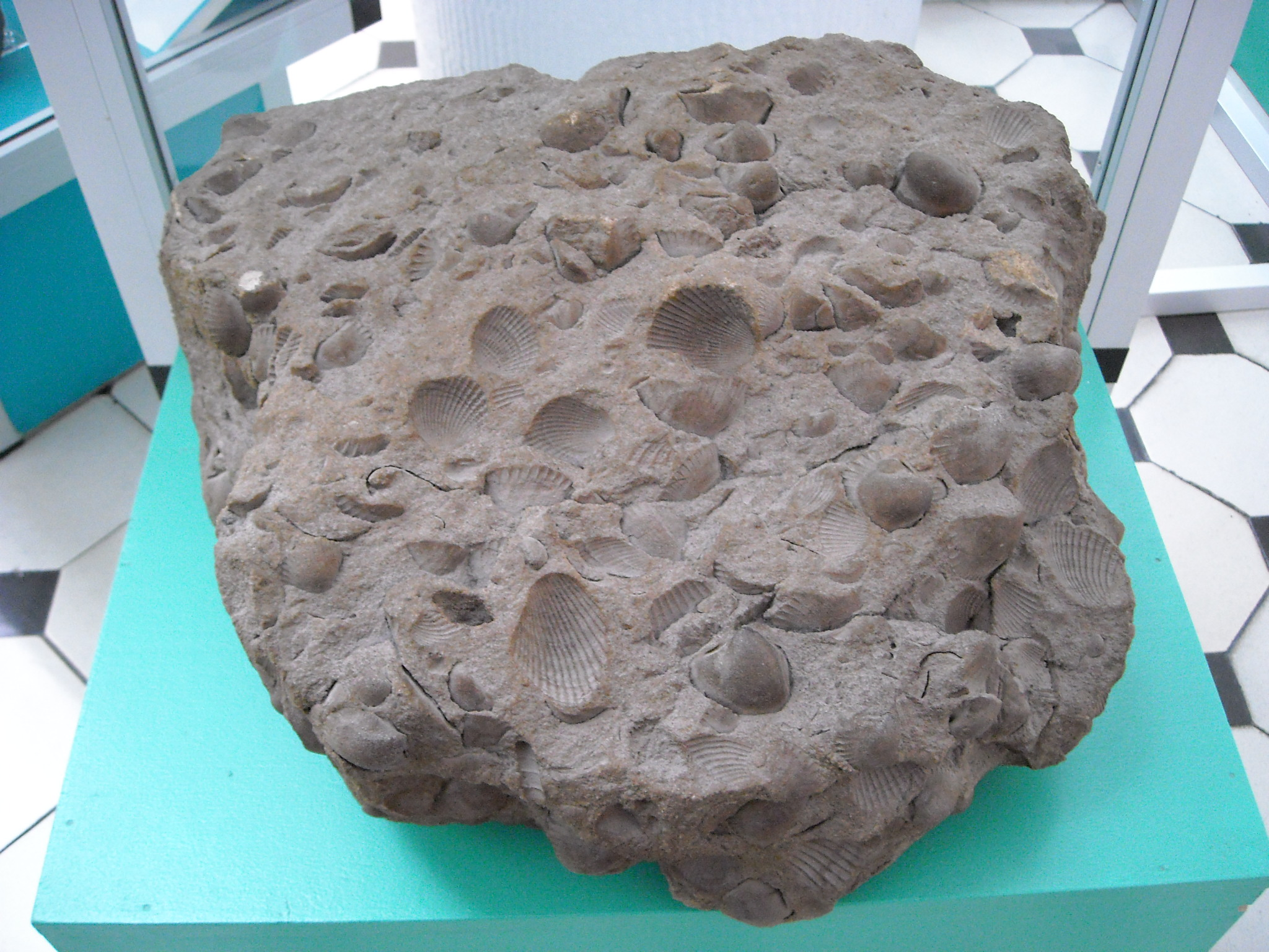 Sandstone with enclosed fossils of Cardium praeedinatum - extinct species of bivalve. This fossil comes from Tertiary of Roztocze, Poland.